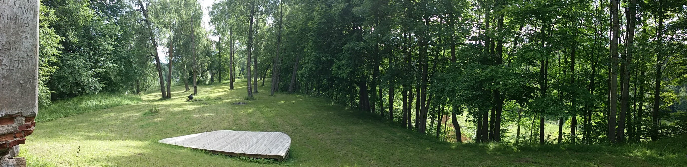 Hillfort Taniskalns in Rauna, Latvia